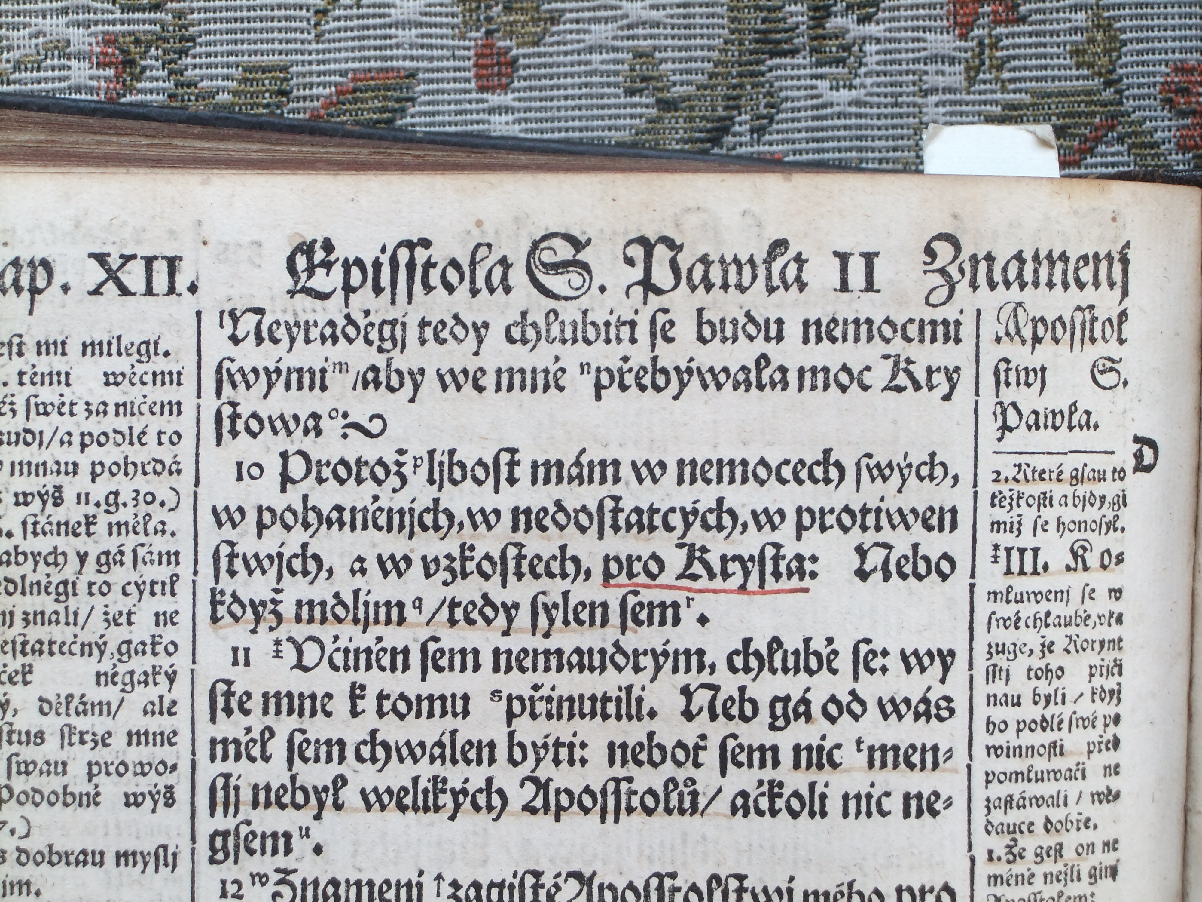 The Czech Bible of Kralice in 6 volumes, Vol. 6 – The New Testament; the upper half of the page 329: 2 Corinthians 12, 9b-11